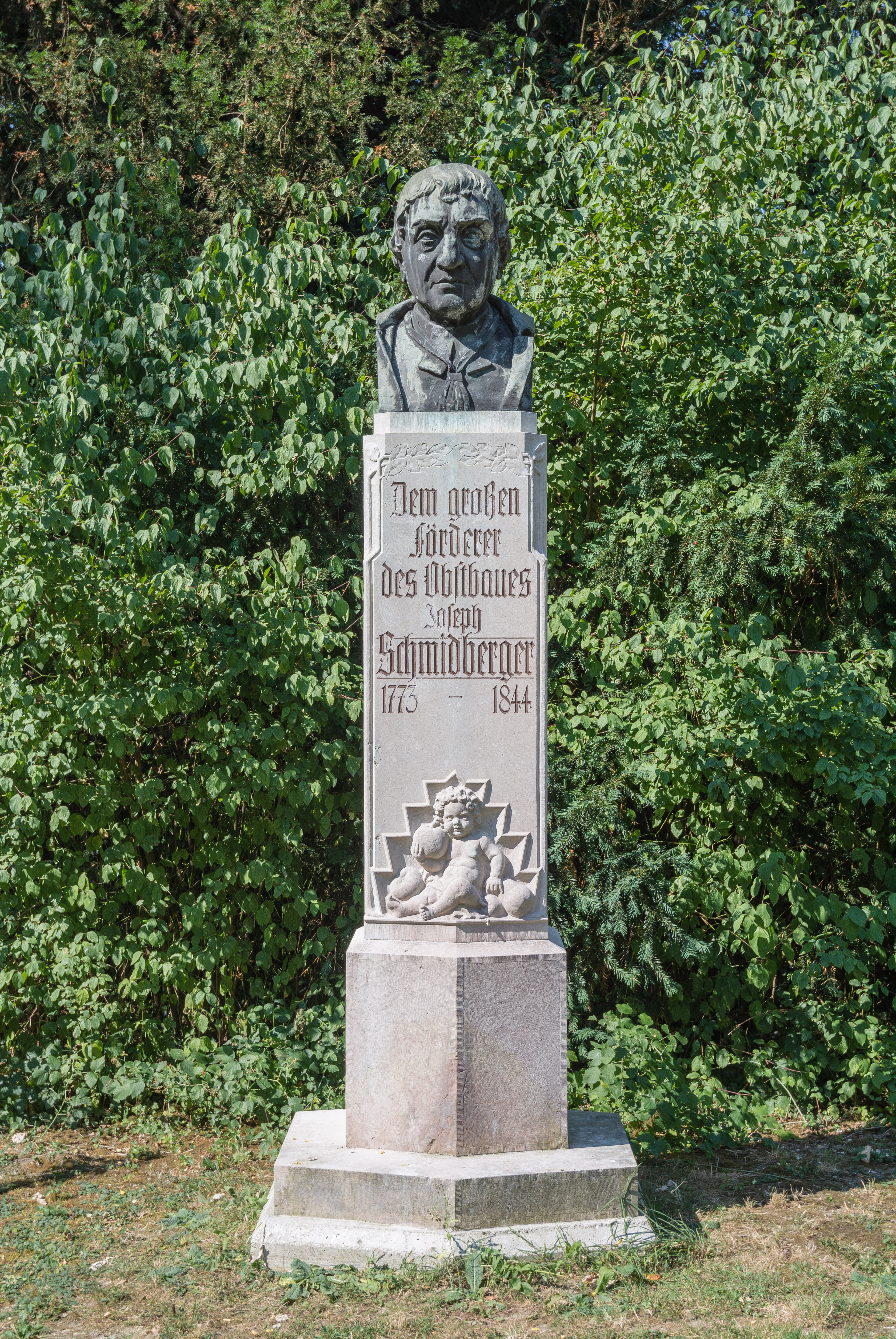 In the garden of prelates of monastery St. Florian there is a monument for Joseph Schmidberger. He was a priest of the monastery St. Florian and a pomicultural expert. One cultivar of apples and one species of flies were named after him.